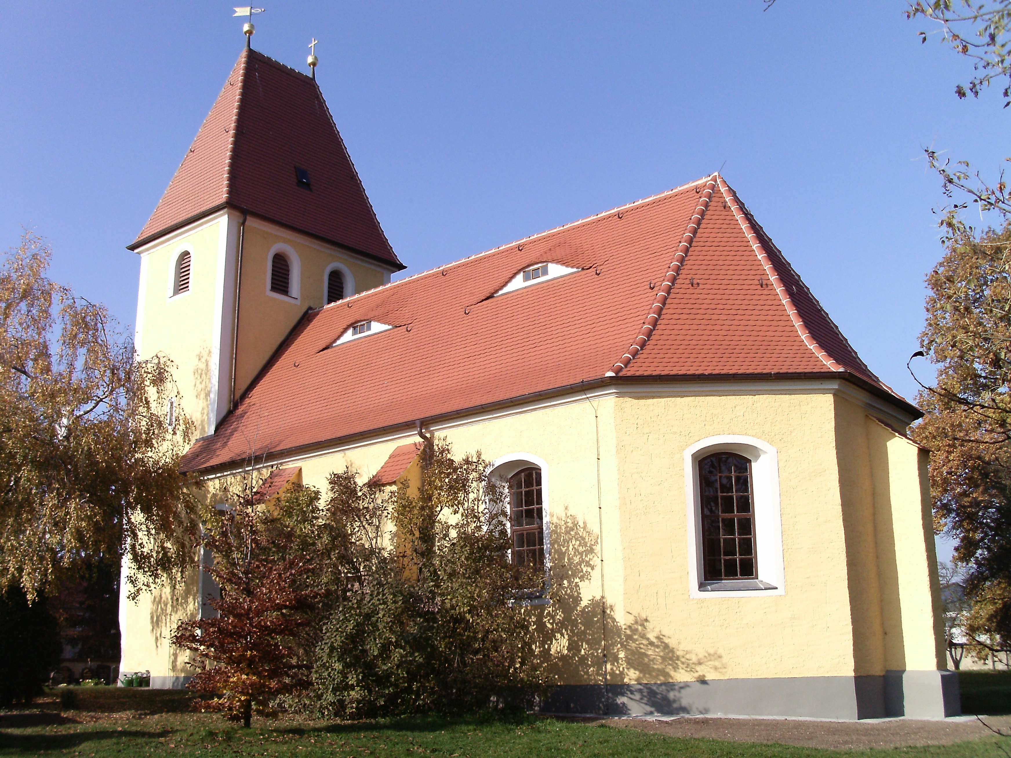 Frankenheim church (Markranstädt, Leipzig district, Saxony)